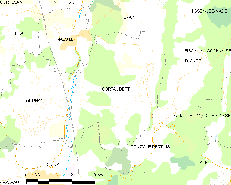 Map of French municipality